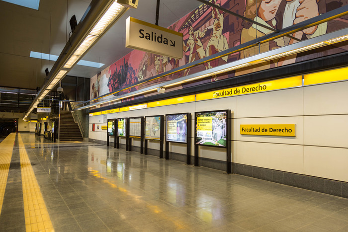 Facultad de Derecho station on it's first day of service.